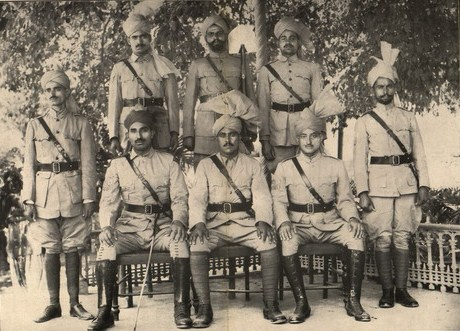 Khaksars; described on Flickr as Allama Mashriqi's followers in Khaksar uniform [Image source (Nasim Yousaf's collection): Khaksar Tehrik album ("India", 1931)] It is not clear if Khaksar Tehrik album is a published work or was published at a date long after 1931.